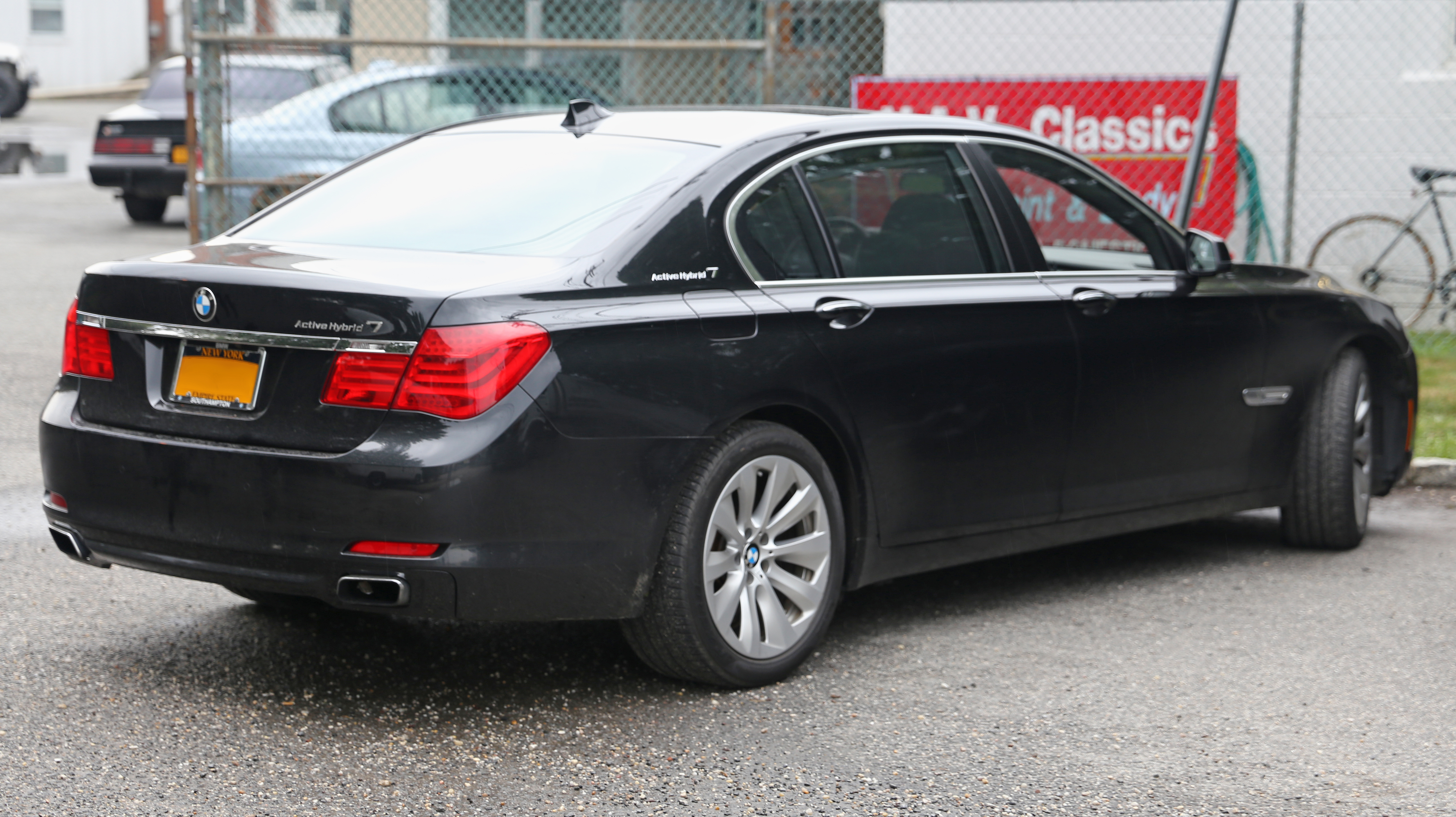 Rear view of a BMW ActiveHybrid 7 (F04) in Southampton, NY.